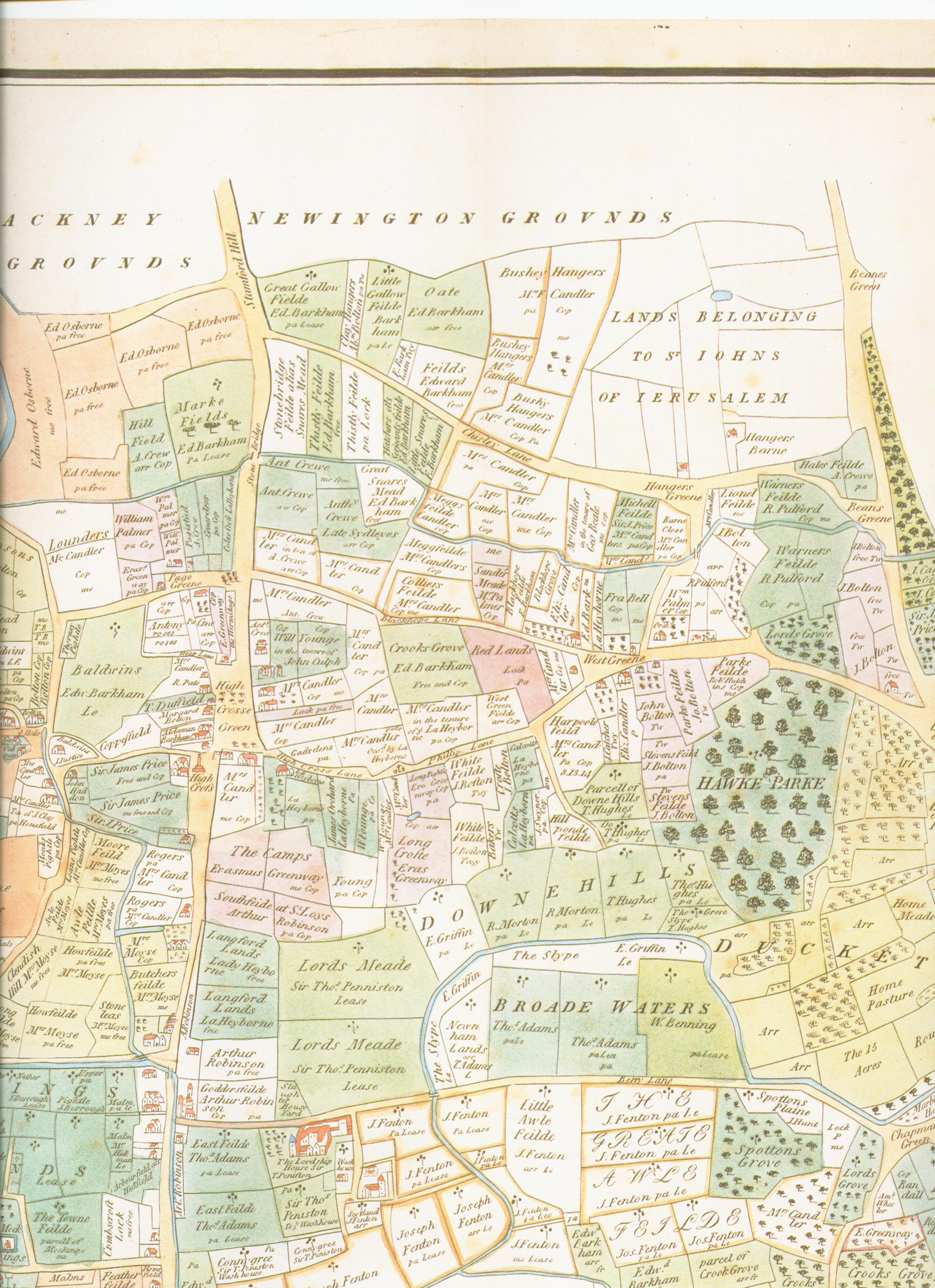 1619 map of the Parish of Tottenham, Middlesex (now in the London Borough of Haringey). South is shown at the top of the map